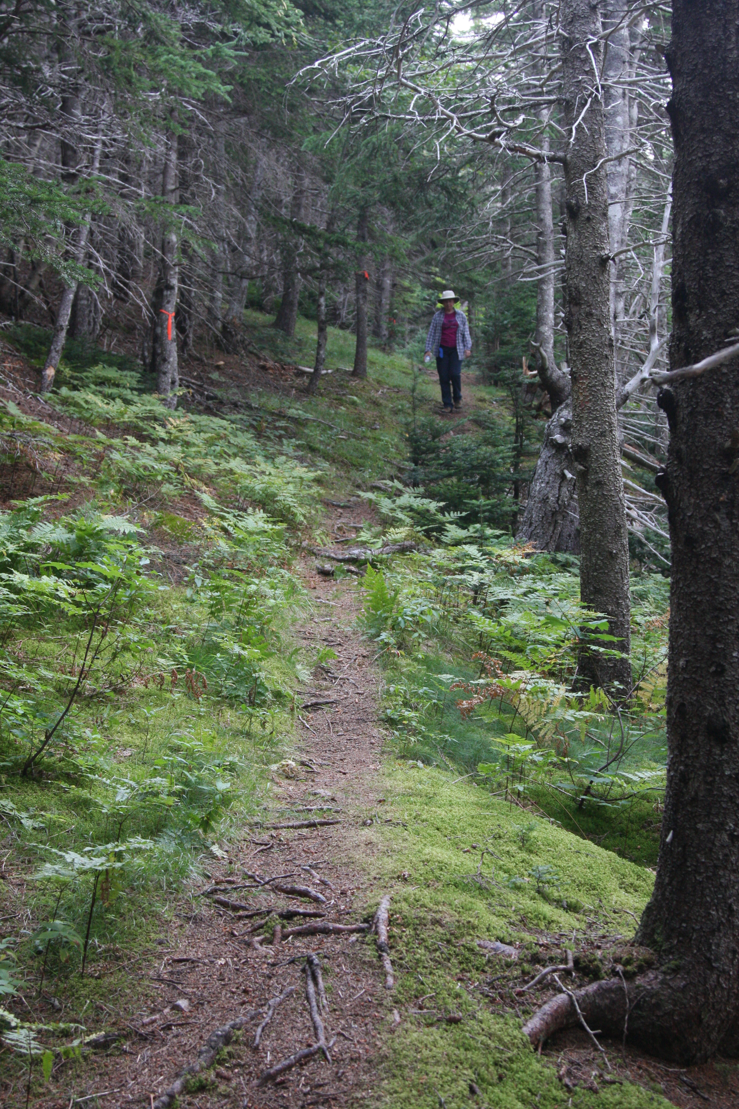 This is a section of the Wilkie Sugar Loaf Trail climbing along the east ridge of the mountain in Victoria County, Cape Breton Island, Nova Scotia, Canada. Wilkie Sugar Loaf is a Canadian peak in the Cape Breton Highlands near the community of Sugar Loaf in the province of Nova Scotia. Wilkie Sugar Loaf is a forested pyramid rising from the shore of Aspy Bay, 10 kilometres (6.2 mi) north of the Cabot Trail. There are few stand-alone mountaintops in Nova Scotia, but one of these is Wilkie Sugar Loaf, climbing to more than 400 metres/yards above sea level in less than 1.5 kilometres (0.93 mi). This peak belongs to the North Mountain range of hills bordering the Aspy Fault but has been separated from the rest of the ridge by the deep ravines cut by Wilkie and Pollys brooks.